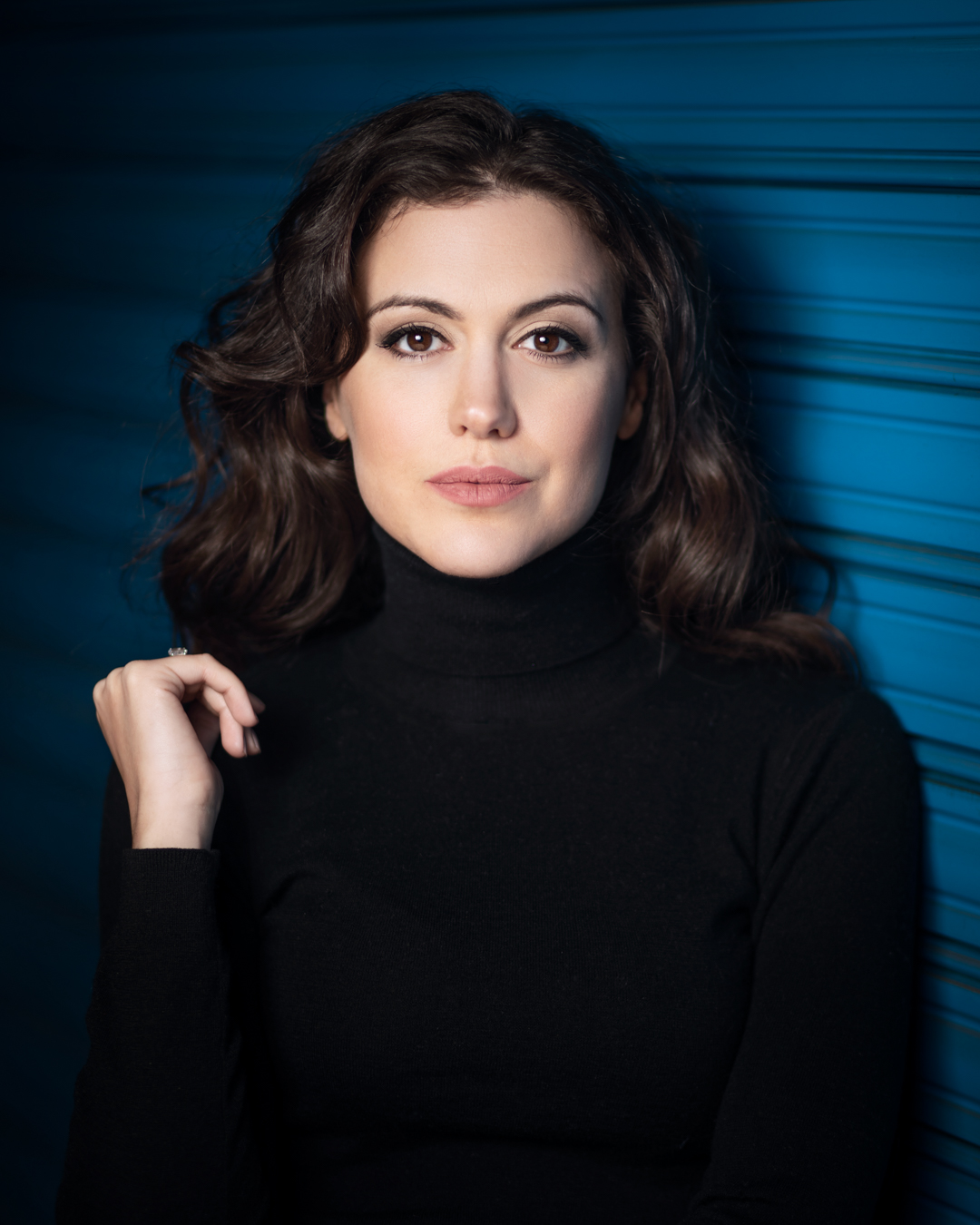 Hana Sofia Lopes in 2019